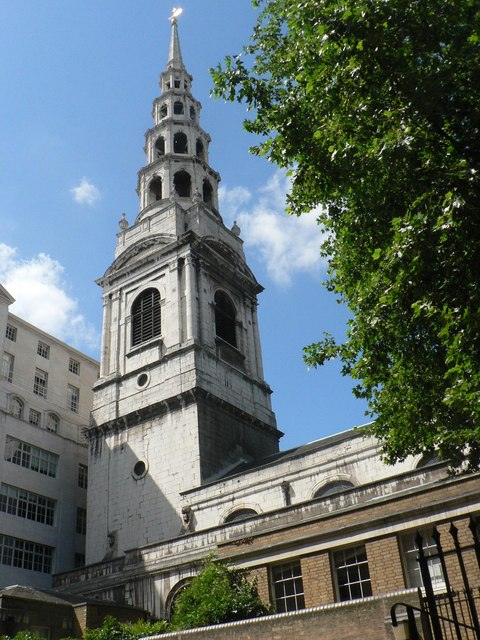 City parish churches: St. Bride Fleet Street Famous for its 'wedding-cake' tower, this church was rebuilt by Wren in 1672, after the Great Fire.